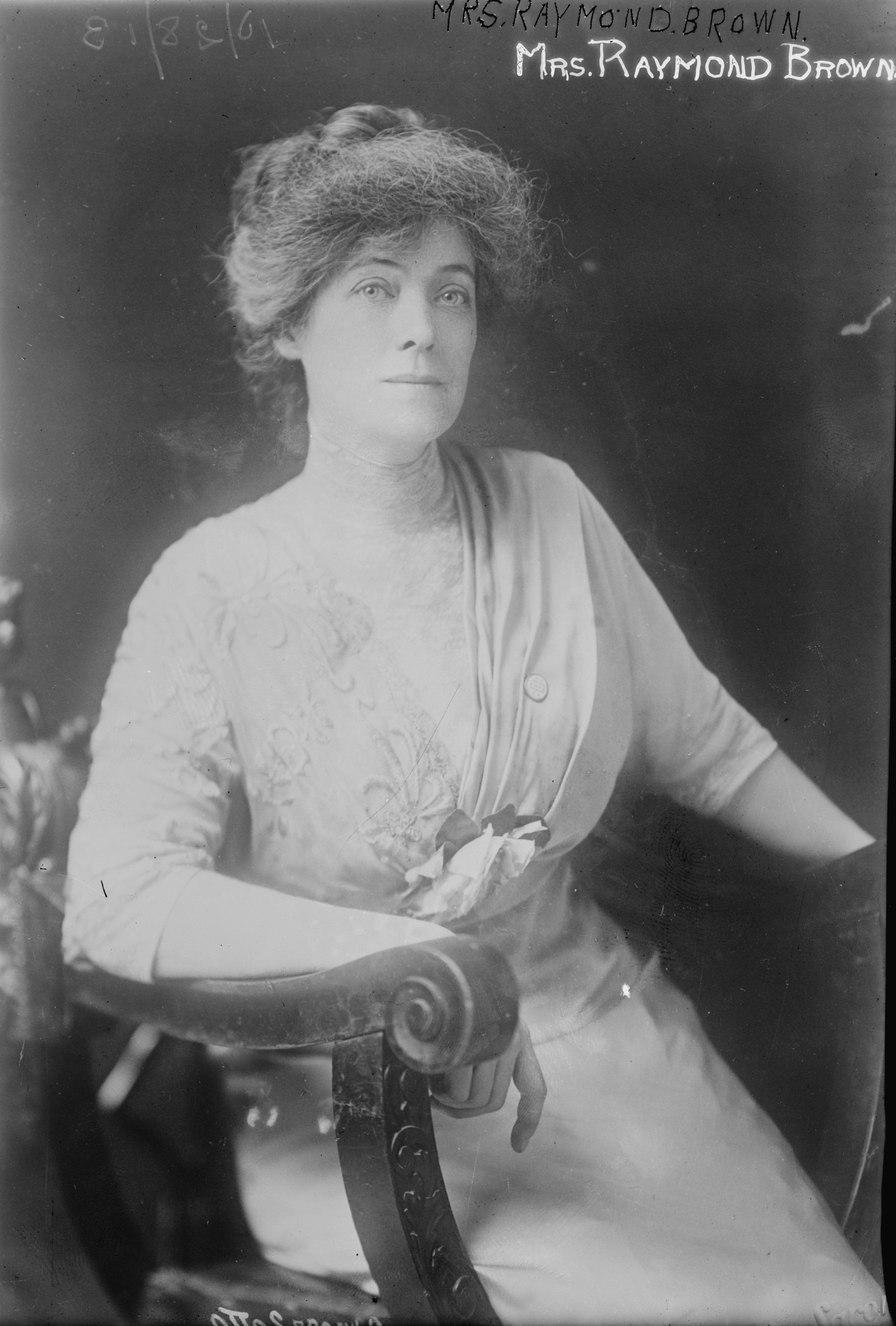 Suffragist Gertrude Foster Brown (Mrs. Raymond Brown) elected president of the New York State Woman Suffrage Association in October 1913